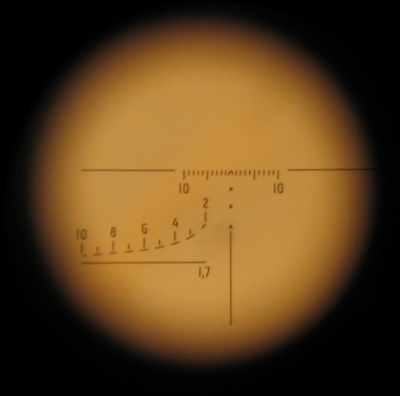 POSP rifle scope reticle. In the bottom-left corner is a stadiametric rangefinder that can be used to determine the distance from from a 170 cm (1.7 m or 5 ft 7 in) tall person/object from 200 m (2) to 1000 m (10).